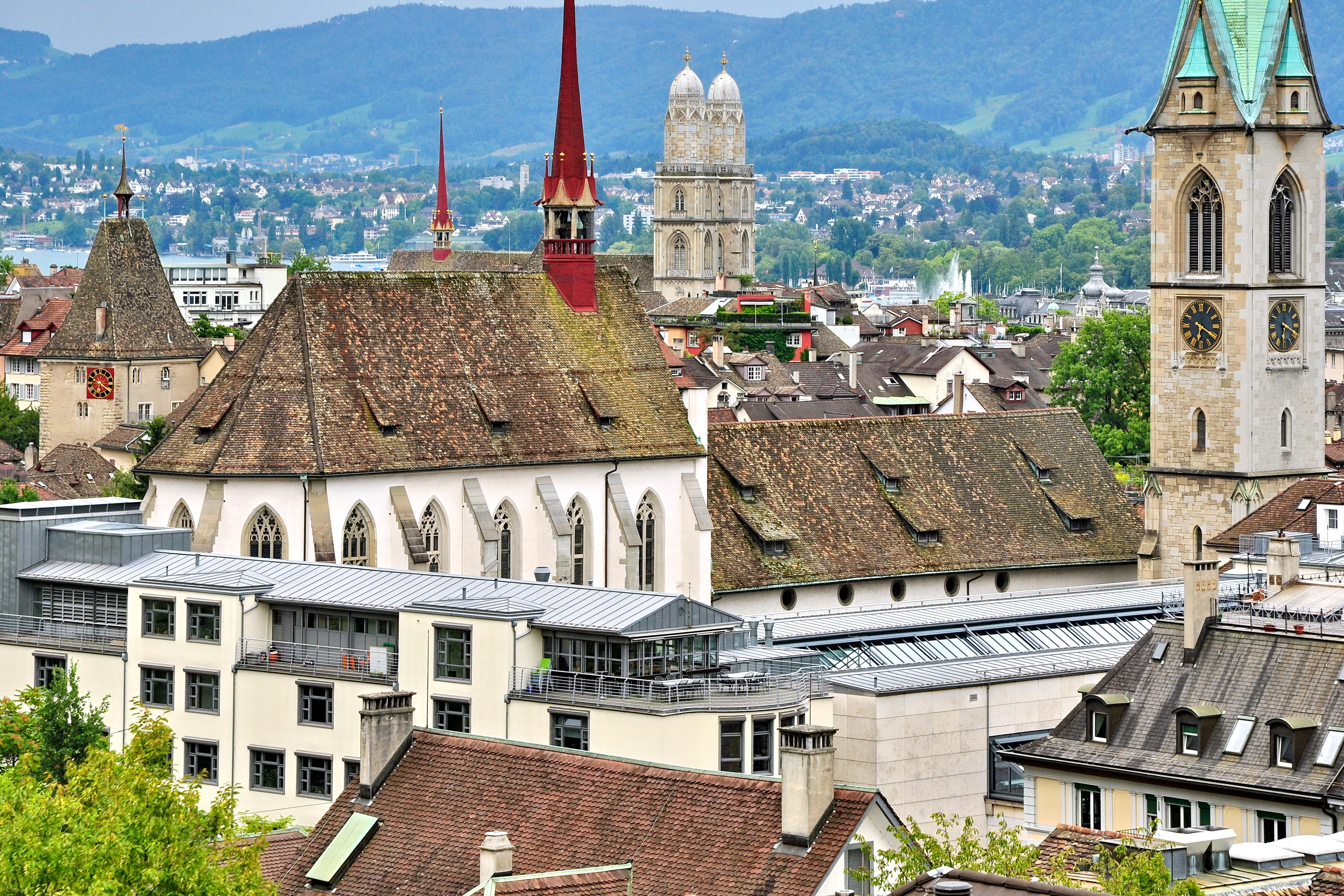 Prediger church and 'Zentralbibliotehk in Zürich (Switzerland), as seen from the main building of the Swiss Federal Technical University (ETH Zürich), the church towers of Grossmünster in the background, Grimmenturm to the left.